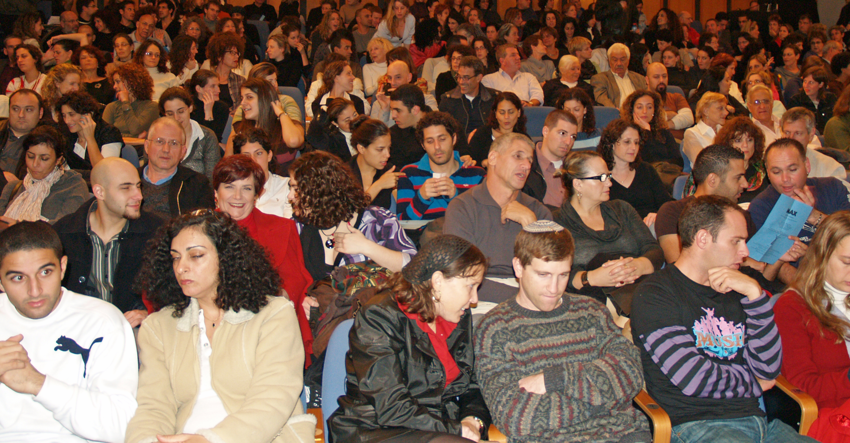 Batsheva Dance Company theater crowd in Tel Aviv, Israel.